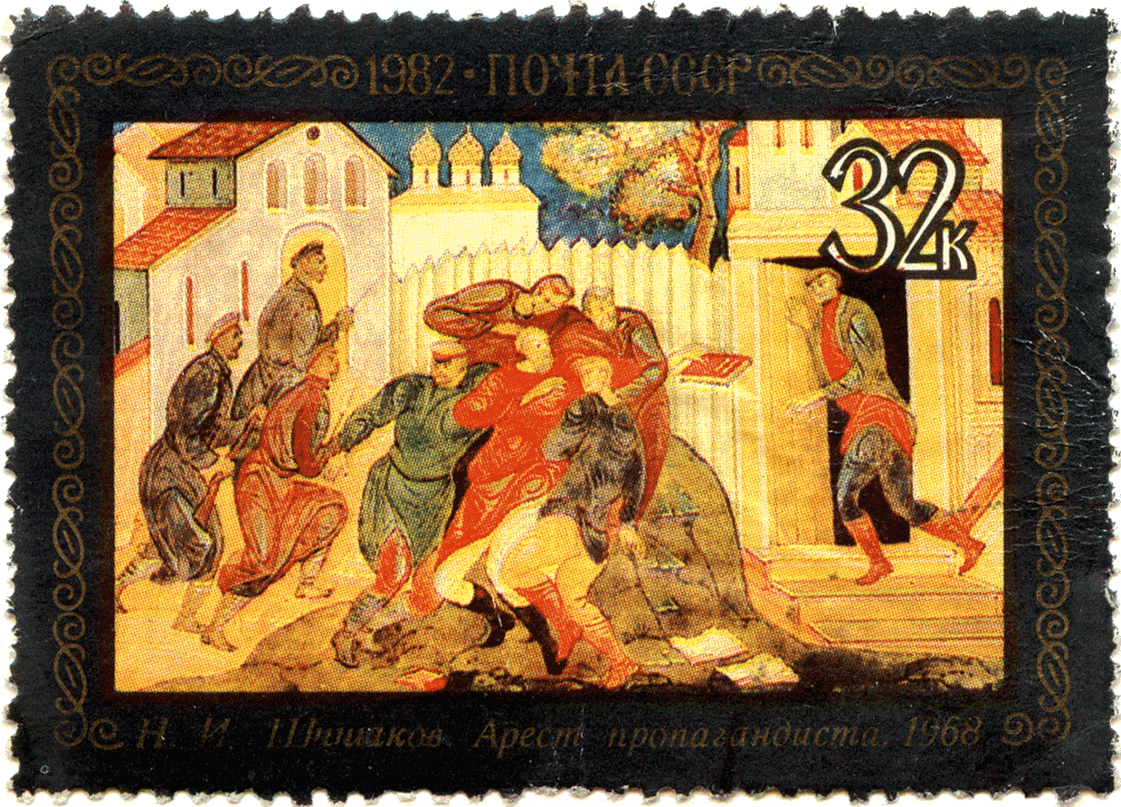 N. I. Shishakov. The arrest of the propagandist (1968). Post of USSR 1982.